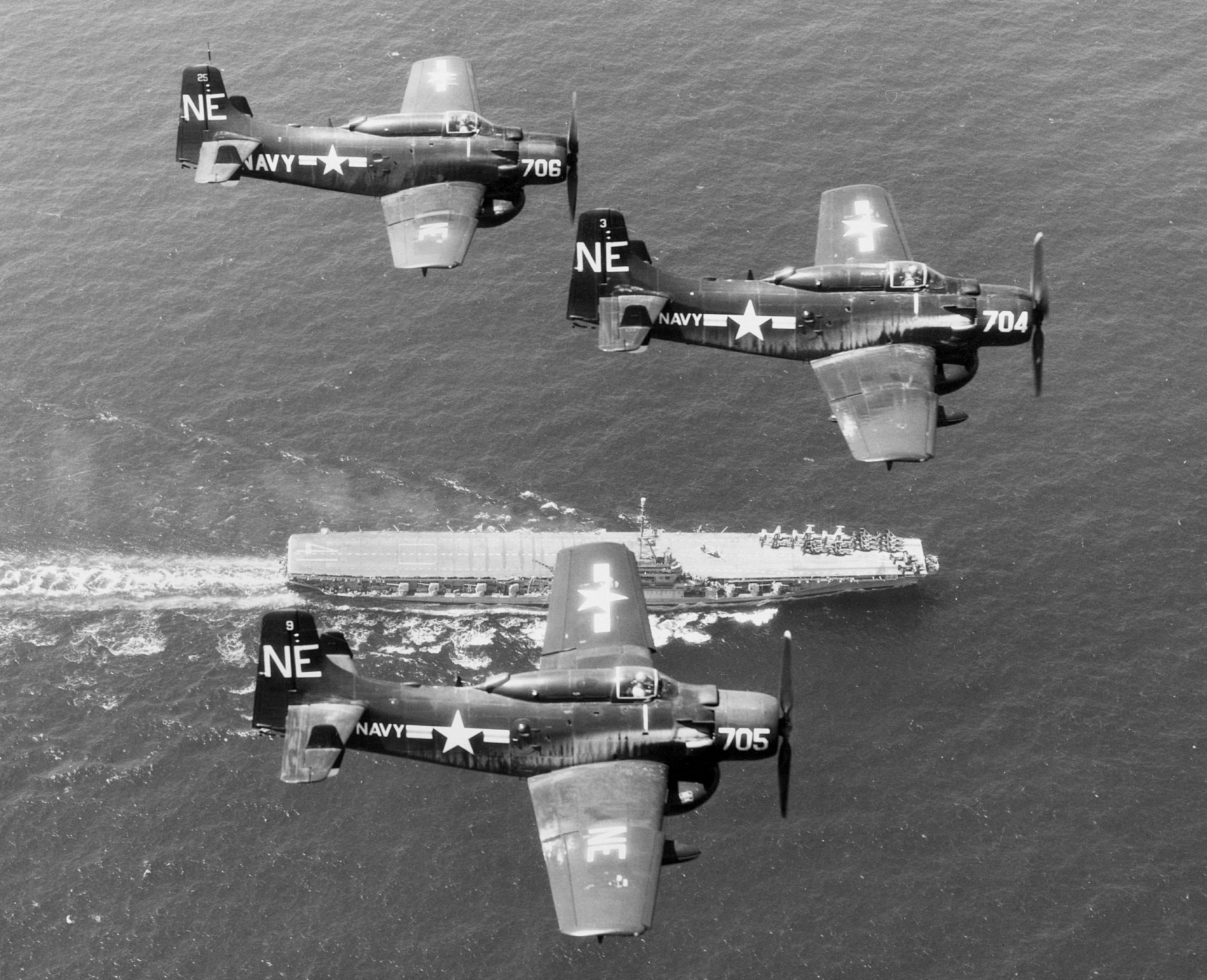 Three U.S. Navy Douglas AD-4W Skyaider early warning planes from composite squadron VC-12 passing over the aircraft carrier USS Midway (CVA-41) in the Mediterranean Sea. Detachment 35 from VC-12 was assigned to Carrier Air Group 6 (CVG-6) aboard the Midway for a deployment to the Mediterranean Sea from 8 January to 4 August 1954.